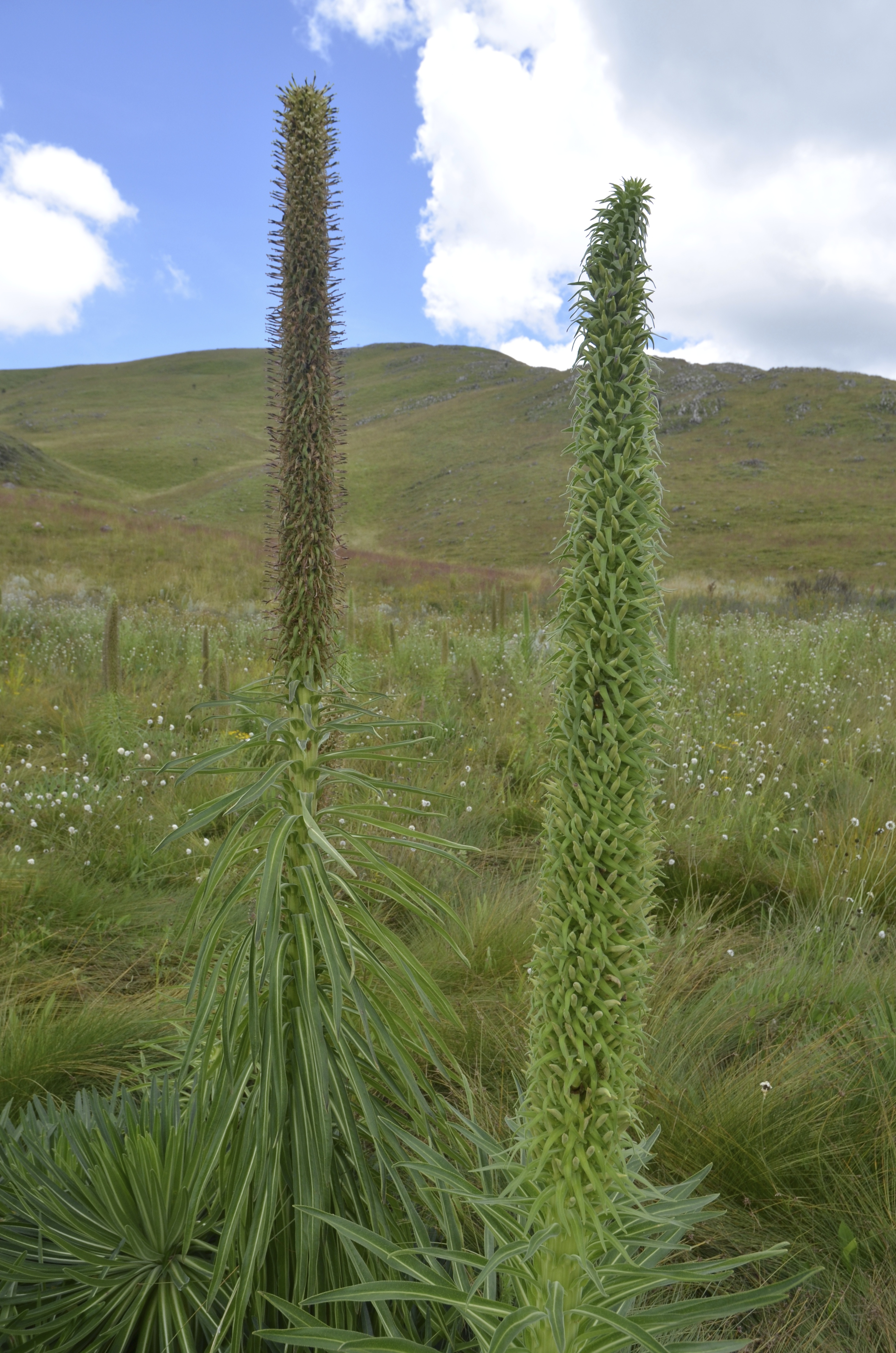 Picture taken in Kitulo National Park.